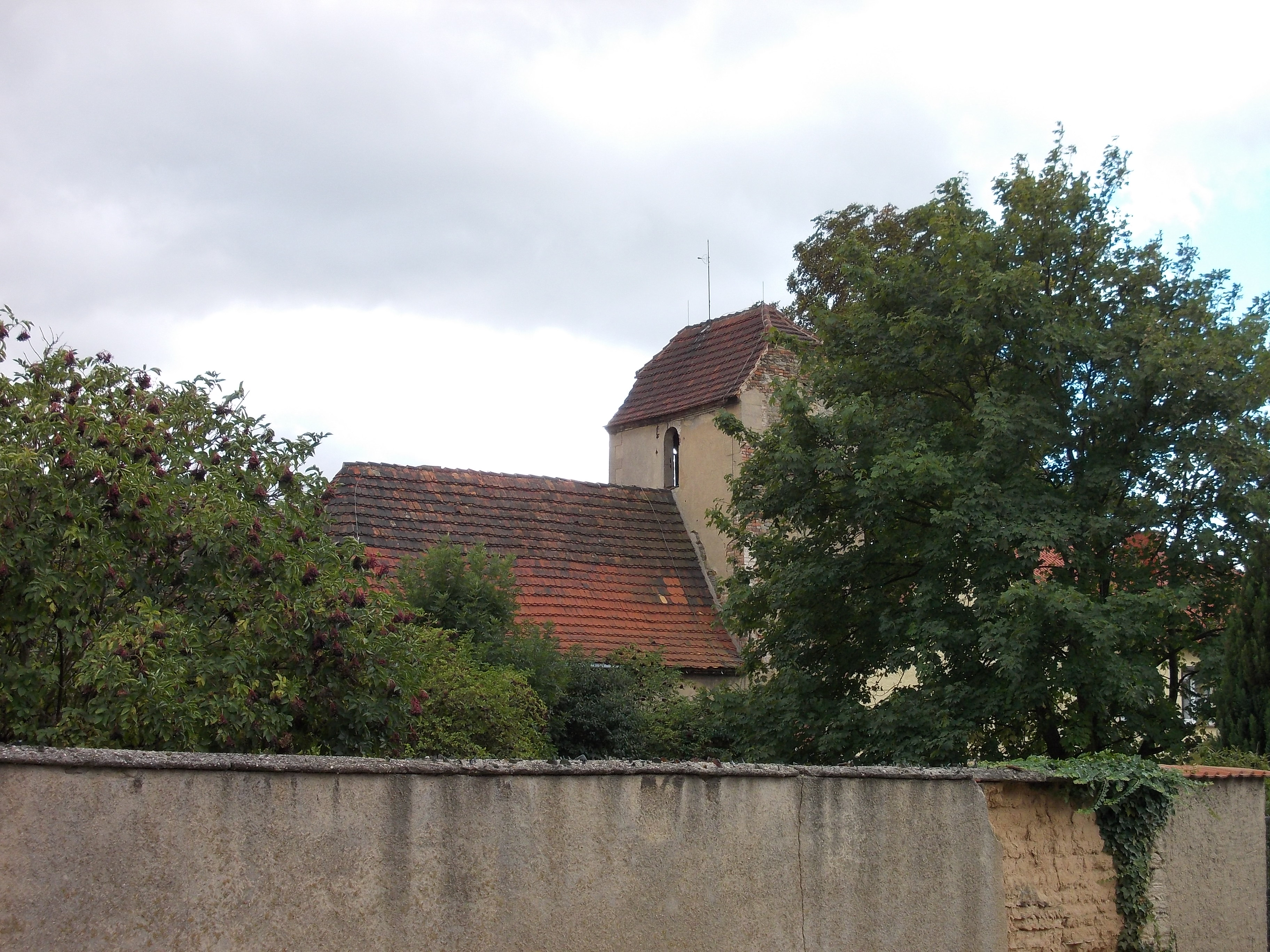 Raschwitz church (Klobikau, Bad Lauchstädt, district of Saalekreis, Saxony-Anhalt)